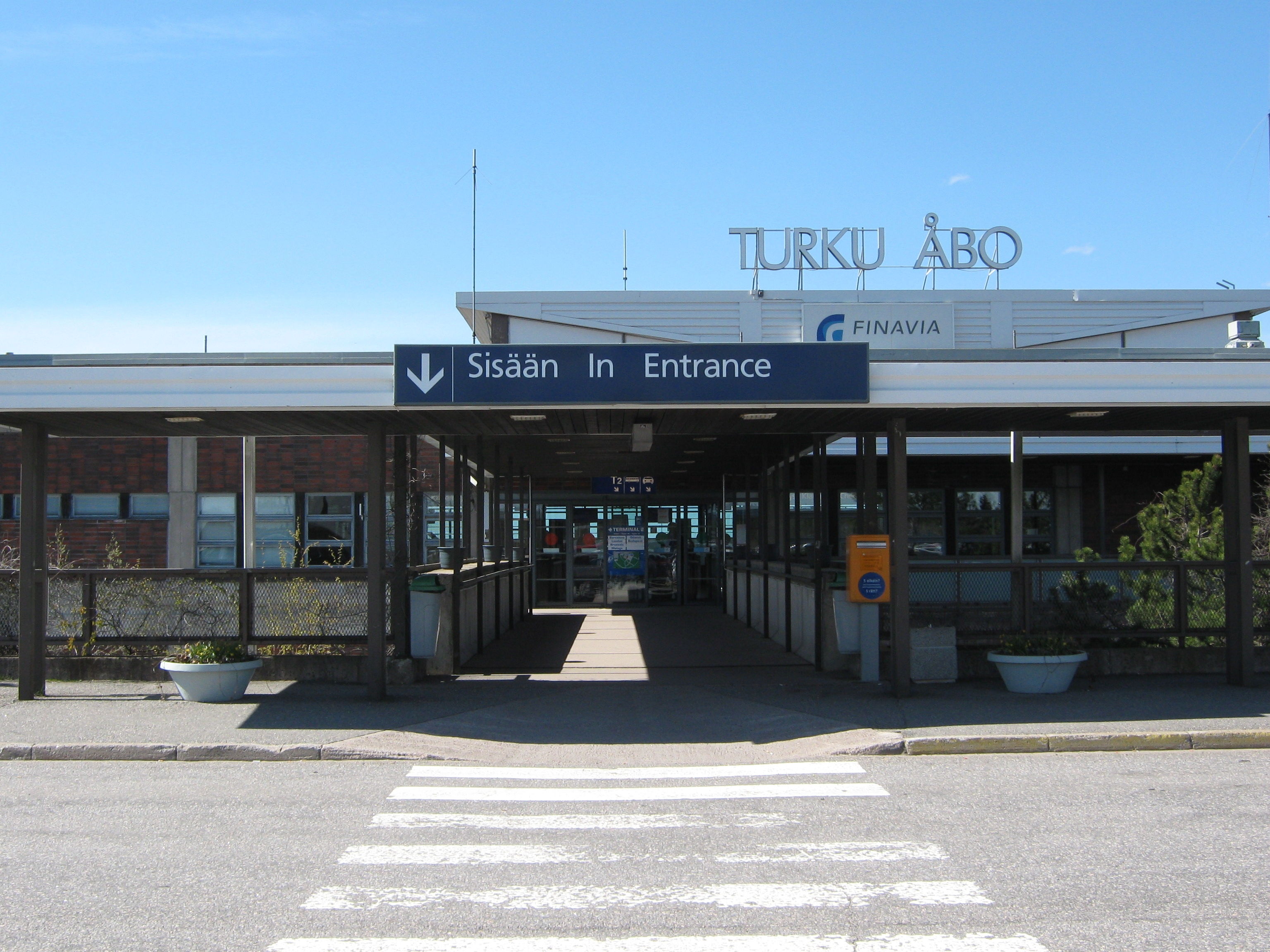 Turku Airport T1 entrance